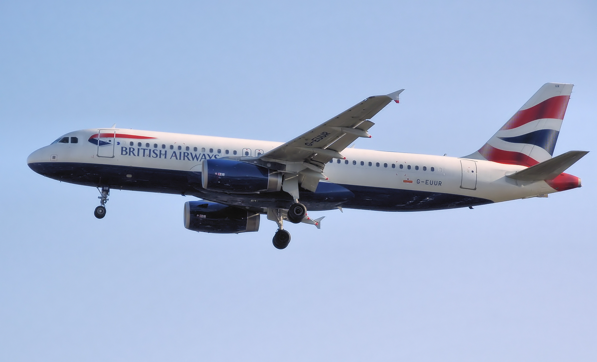 British Airways Airbus A320-200 (G-EUUR) lands at London Heathrow Airport, England.